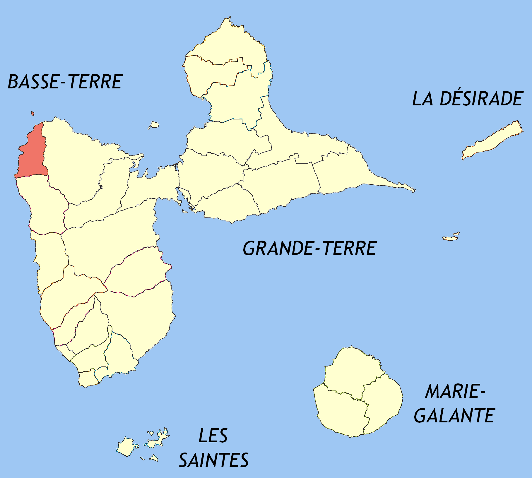 Created map myself.